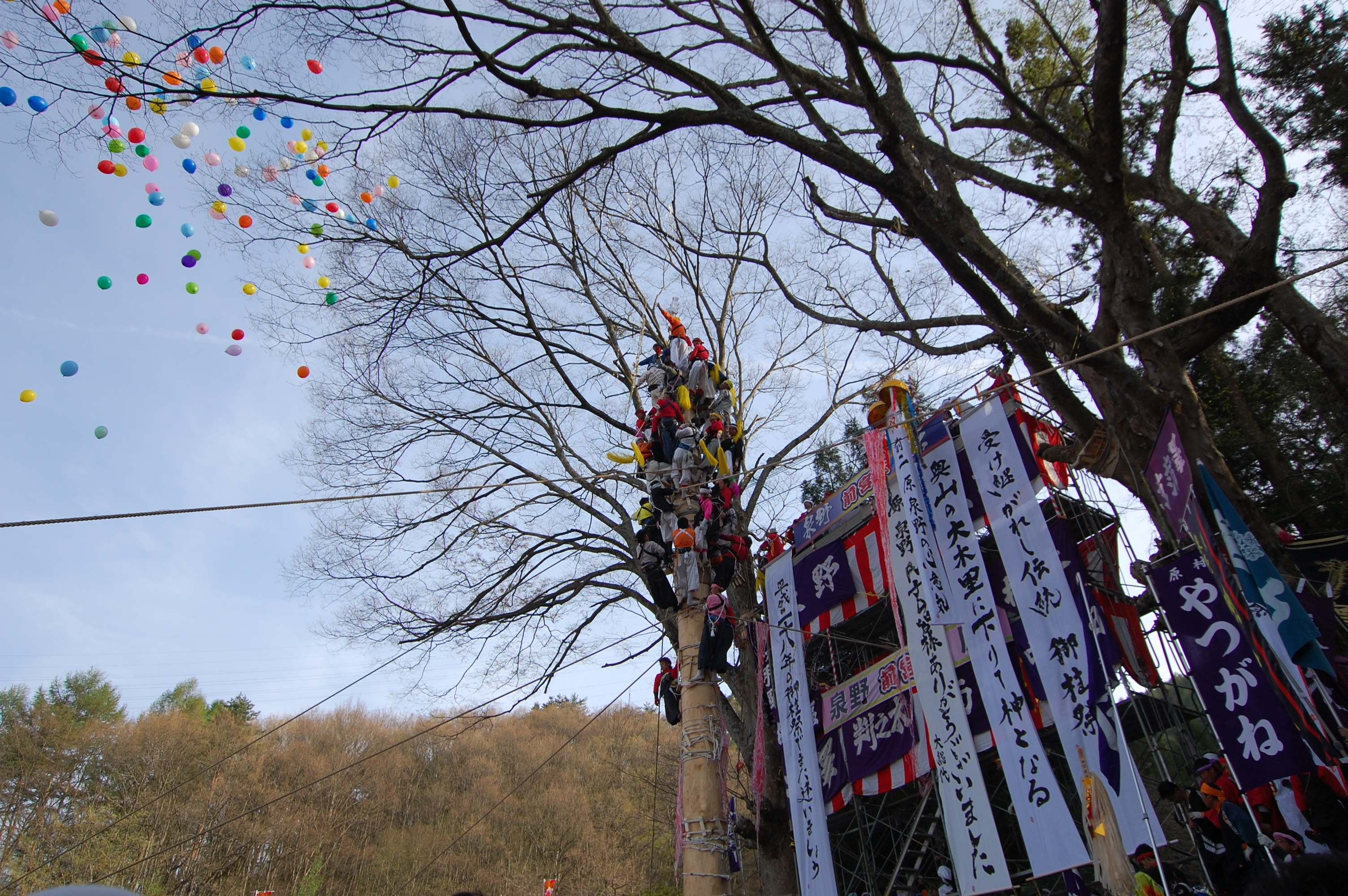 Onbasira Festival